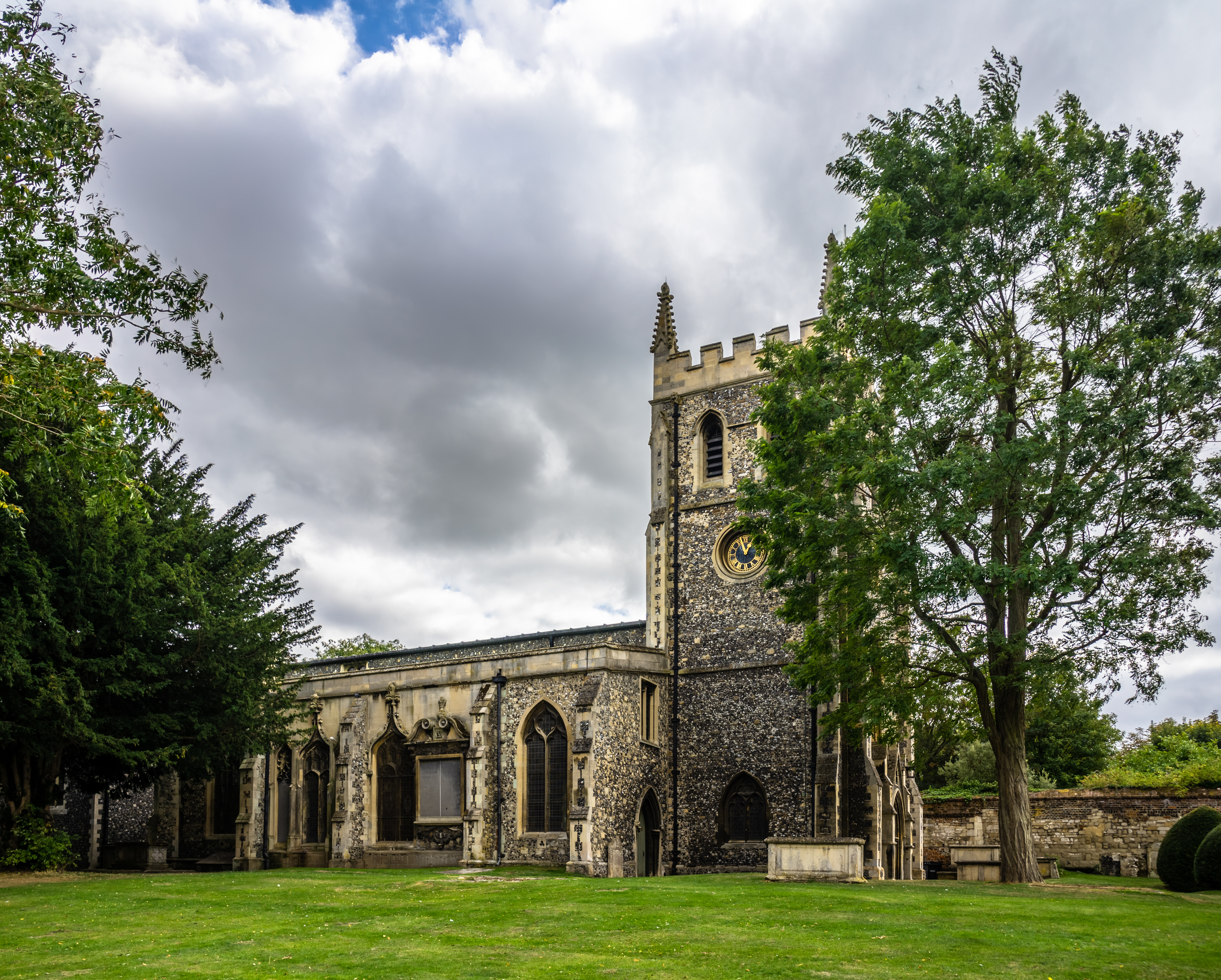 Church Of St John The Baptist Wikidata has entry Q17529073 with data related to this item.